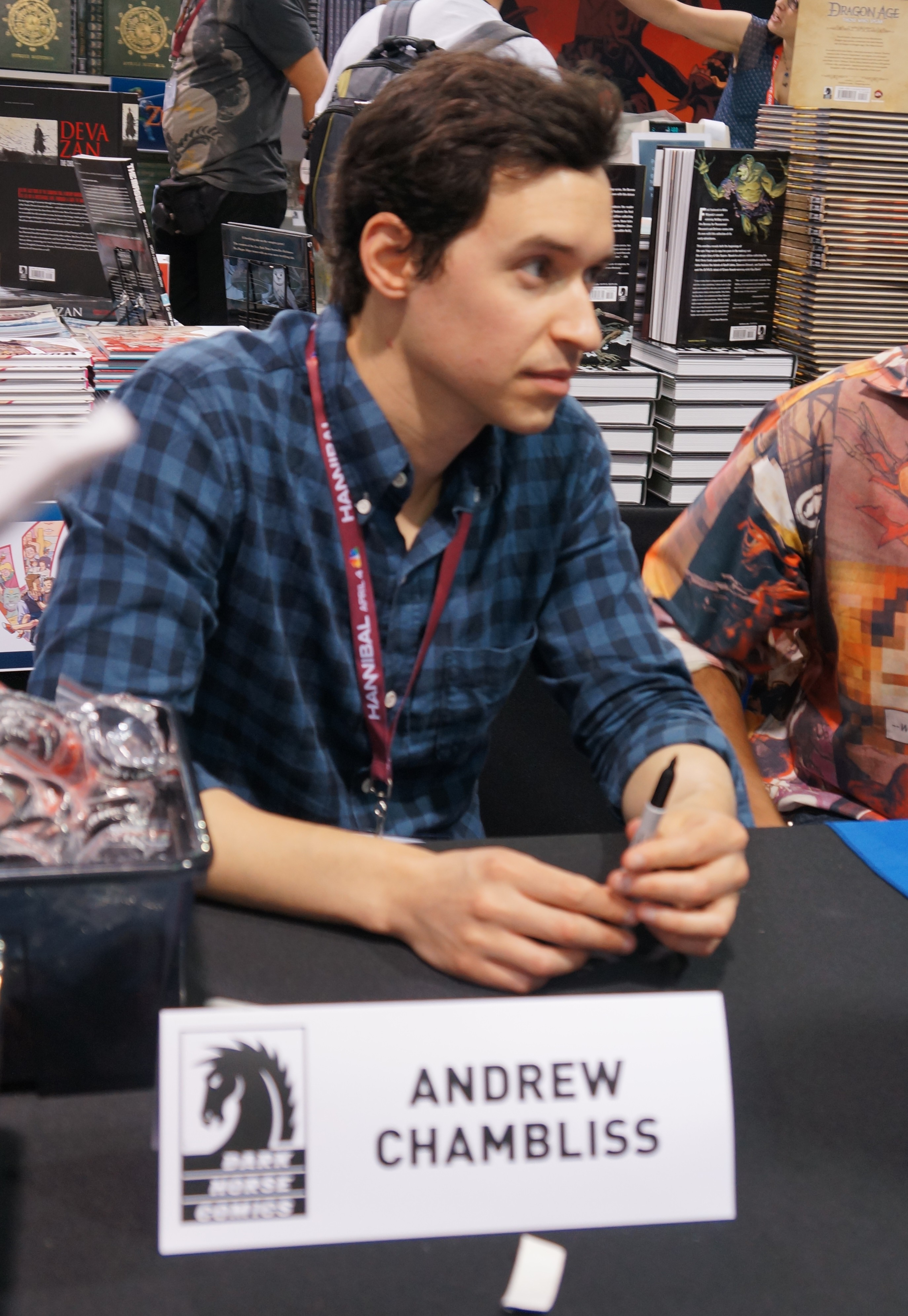 Wondercon 2013